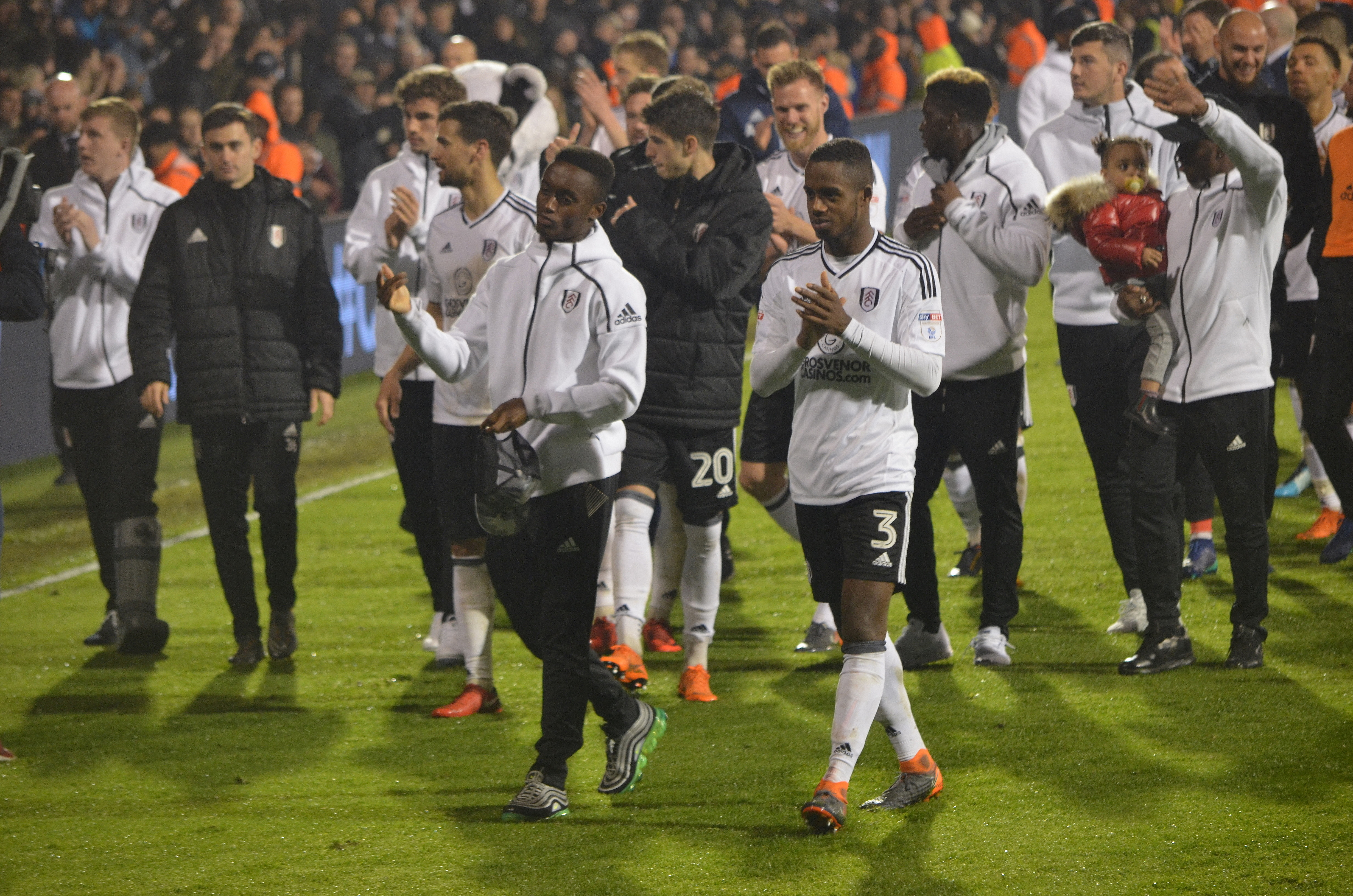 The Sessegnon brothers, Fulham